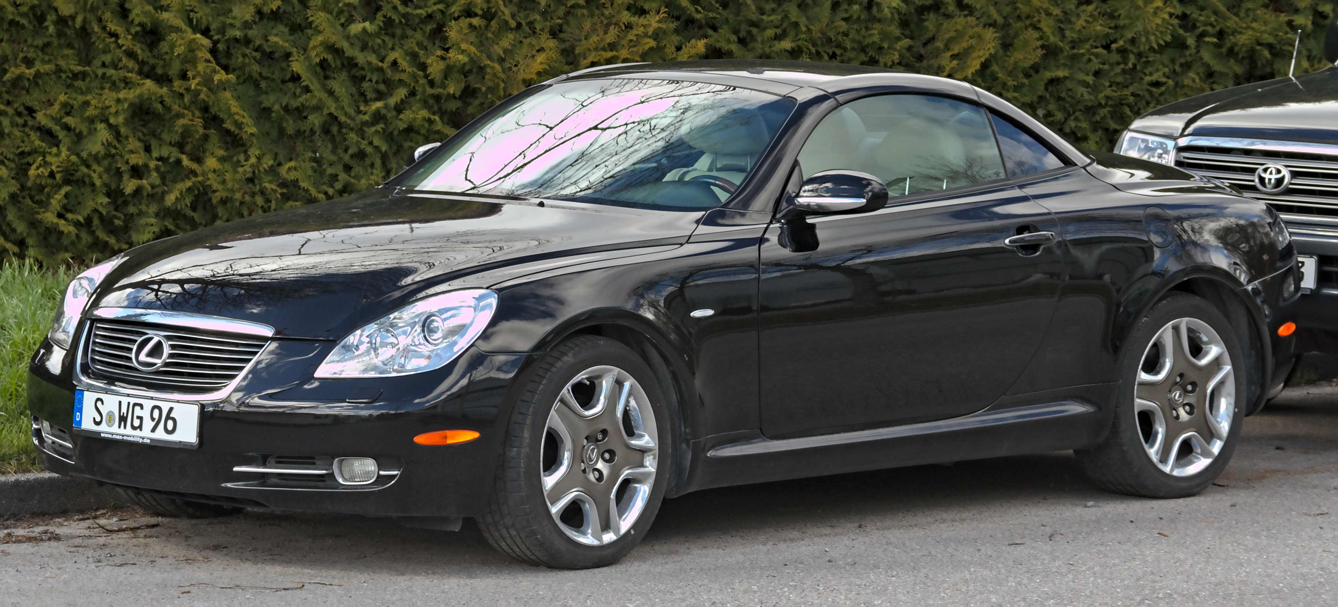 Lexus_SC_430_(UZZ40) in Stuttgart-Vaihingen